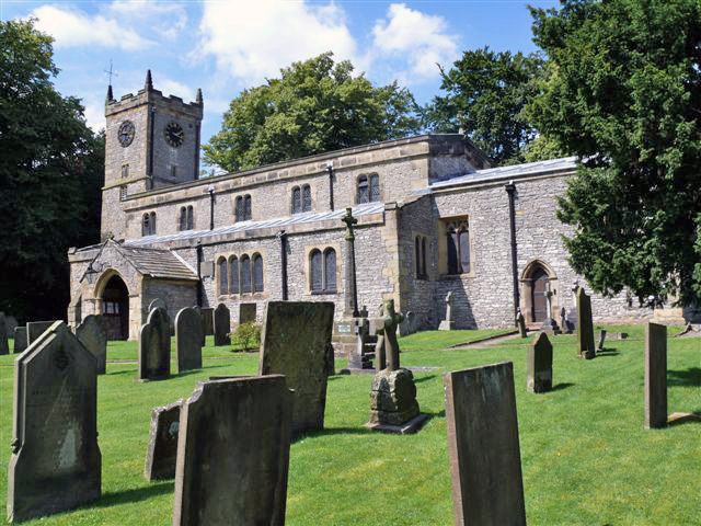 Great Longstone church, near to Great Longstone, Derbyshire, Great Britain. We were looking for Uncle Claude